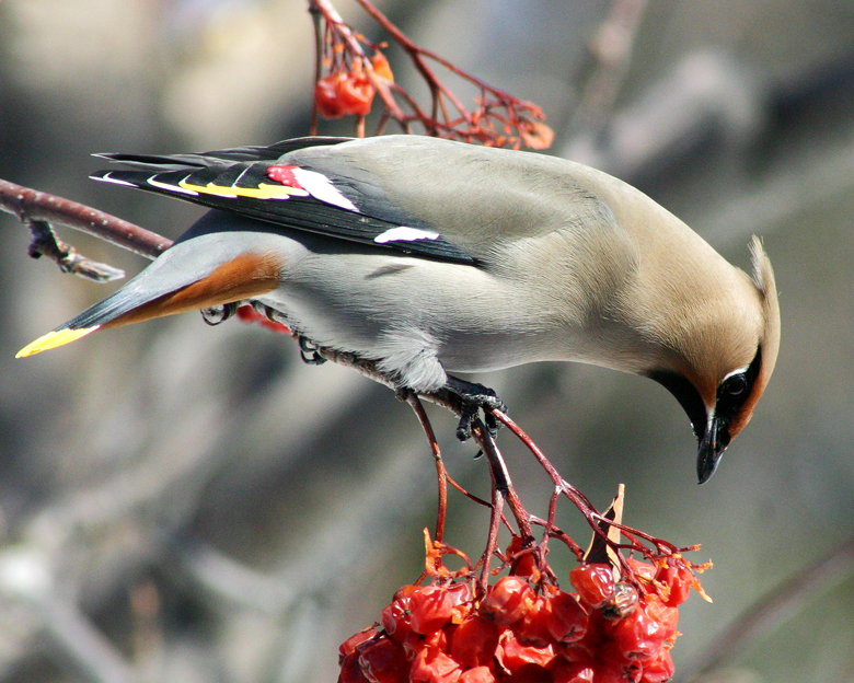 This flock of wax wings stripped the tree of berries in a day.